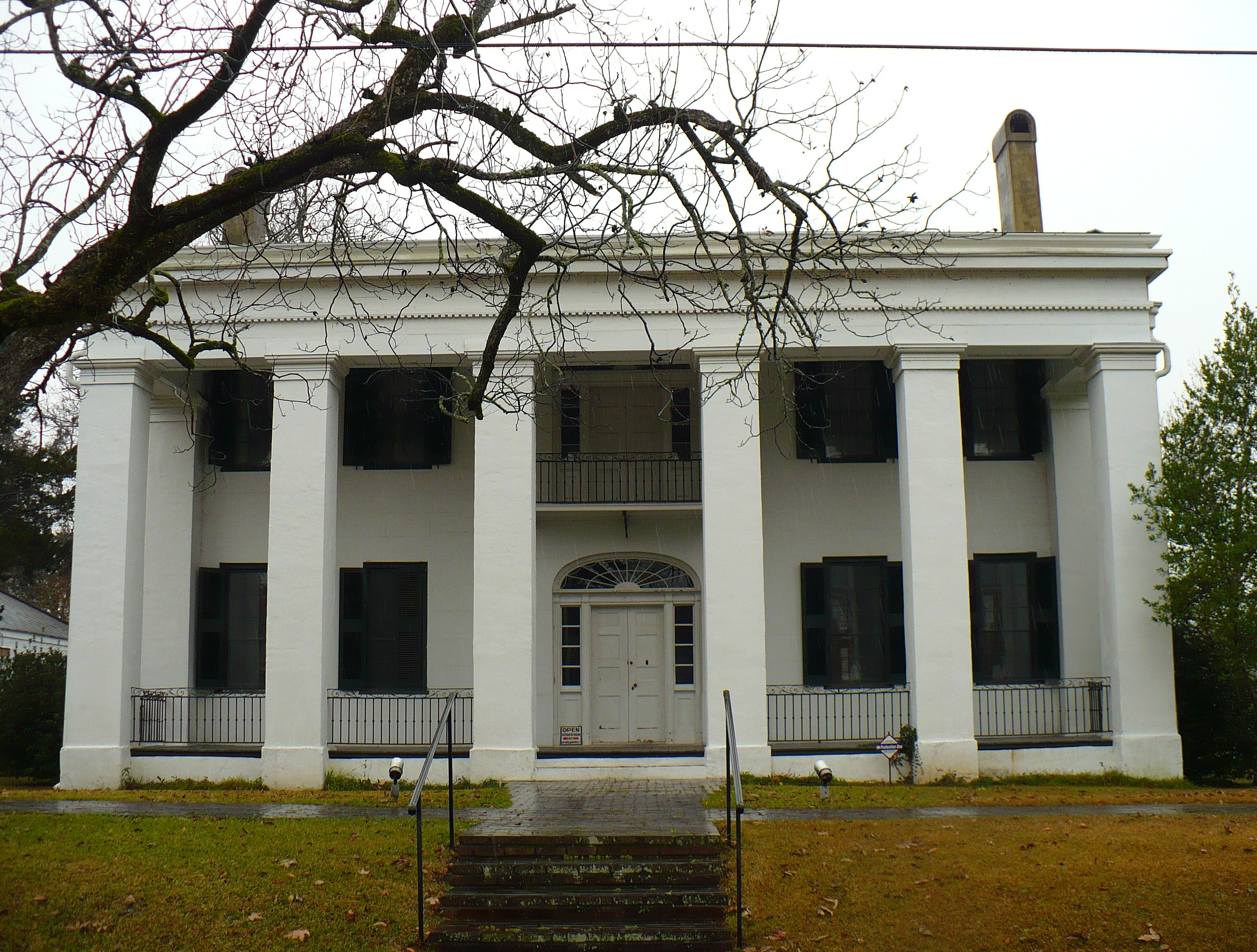 Bluff Hall in Demopolis, Alabama.